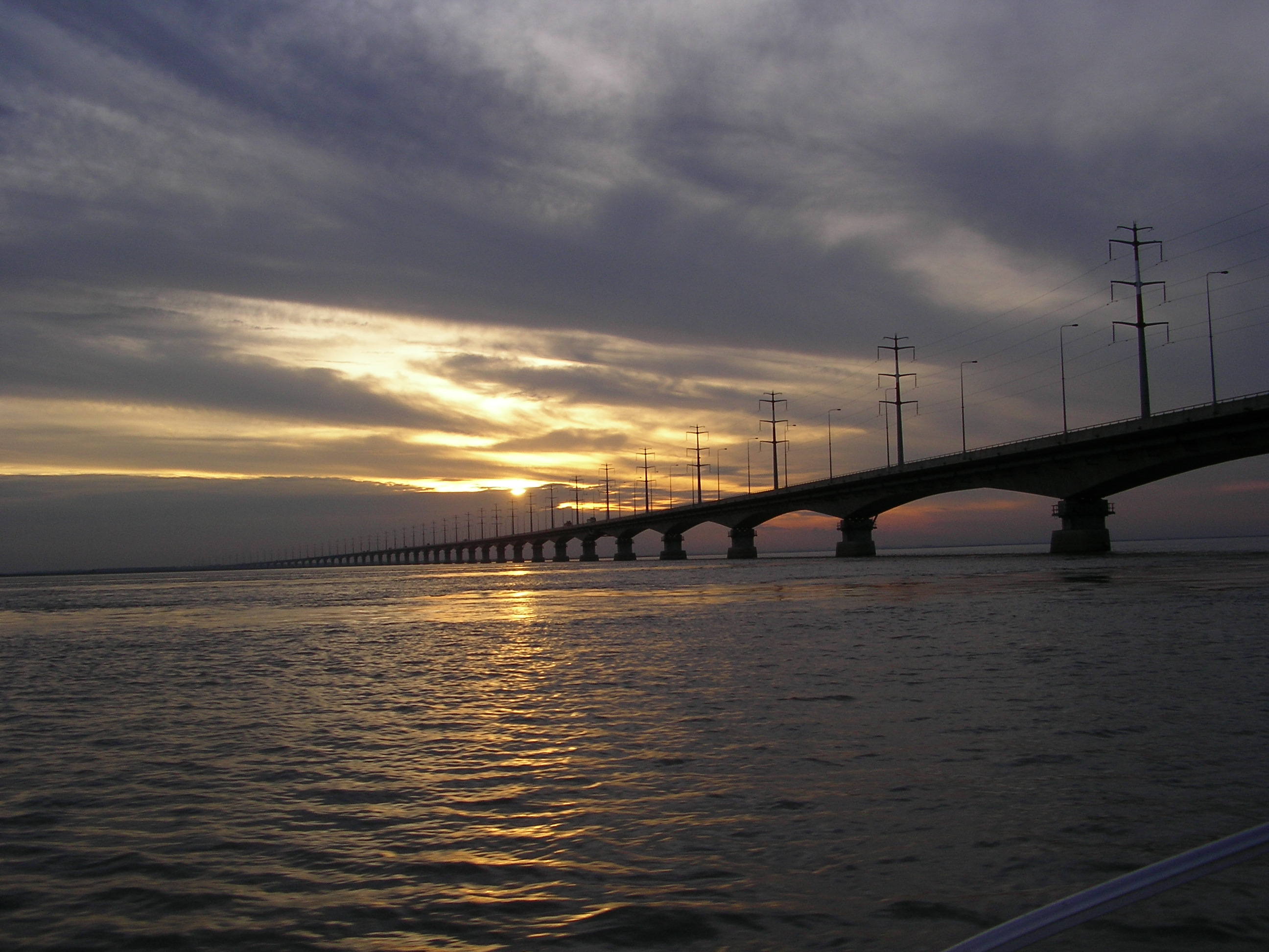 Bangabandhu Bridge, Tangail, Bangladesh. Arman Aziz, the creator of this file, donated it to public domain on August 29, 2006